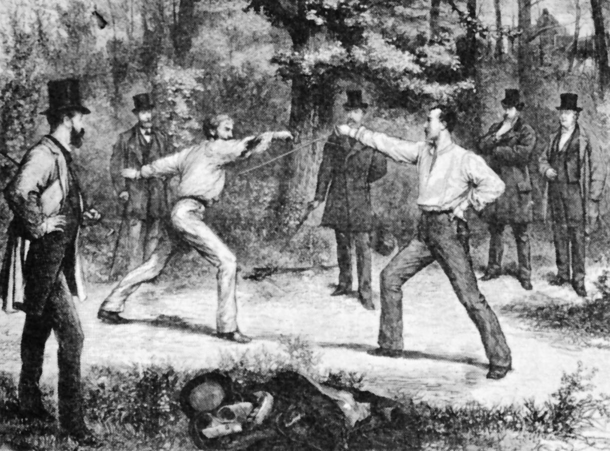 original caption: "The Code Of Honor--A Duel In The Bois De Boulogne, Near Paris"